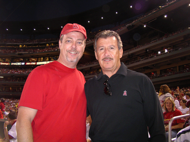 Picture of Arte Moreno with a fan. Image credit: Jodi Miller.